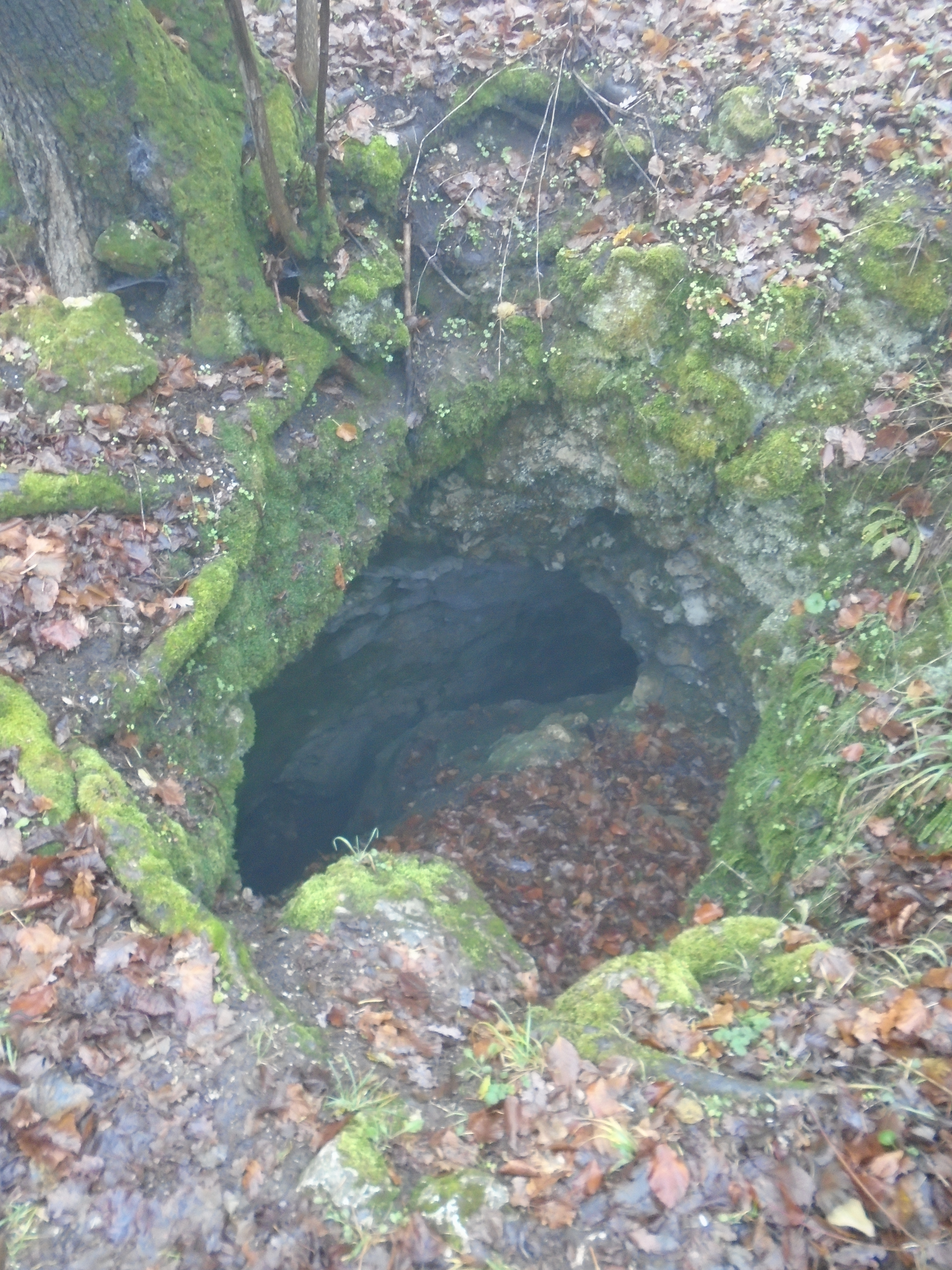 Entrance of Bronz Cave.